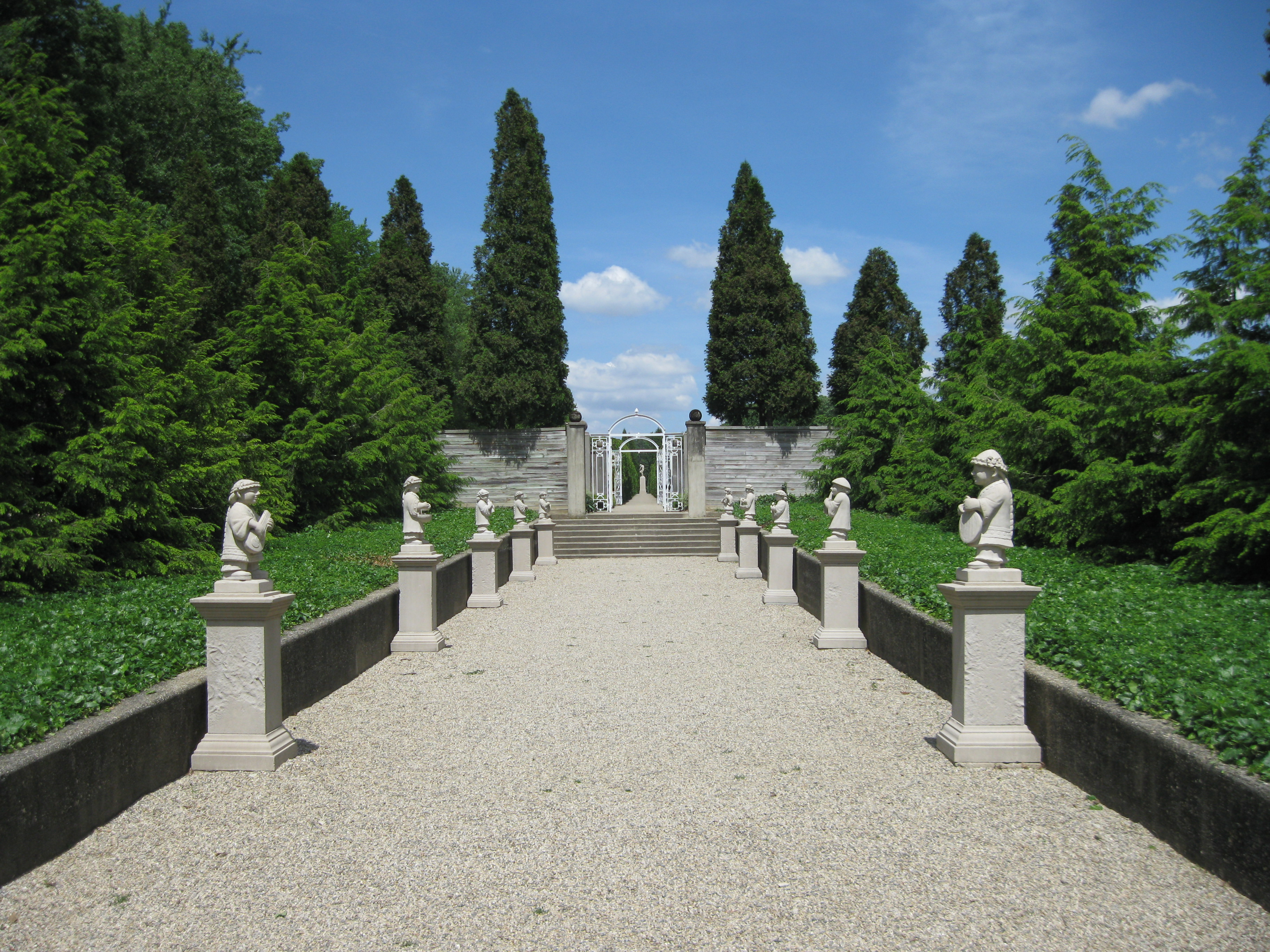 The Musicians' Garden in Allerton Park